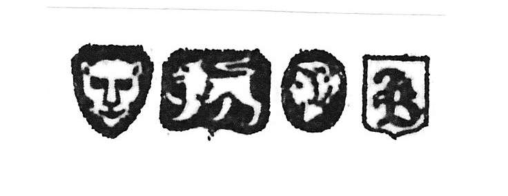 Silver Hall-marks, London 1845